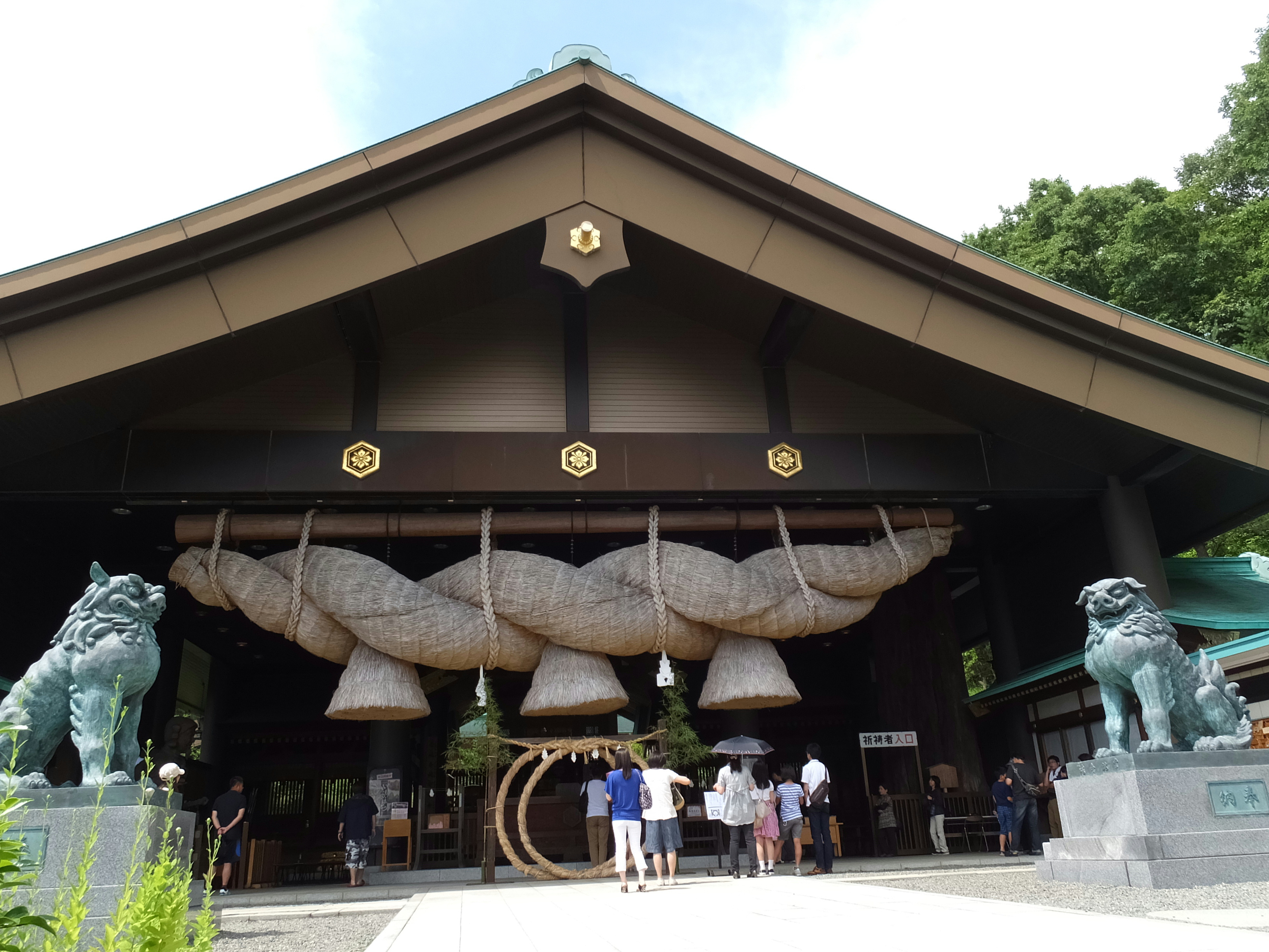 Haiden of Hitachi-no-kuni Izumo-Taisha, Kasama City Ibaraki prefecture